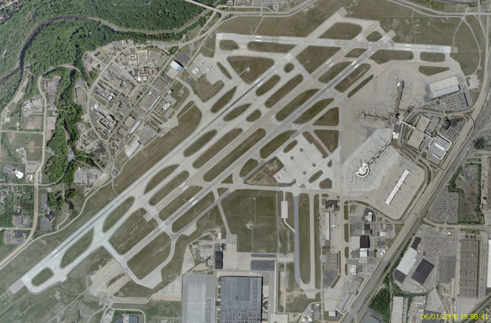 Satellite image of Cleveland Hopkins International Airport (2004-2005). USGS Image satellite via NASA World Wind.